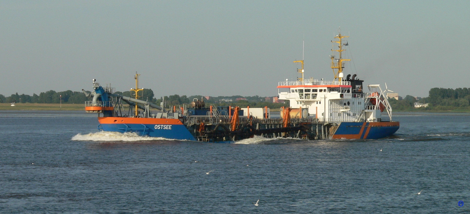 Dredger "Ostsee"